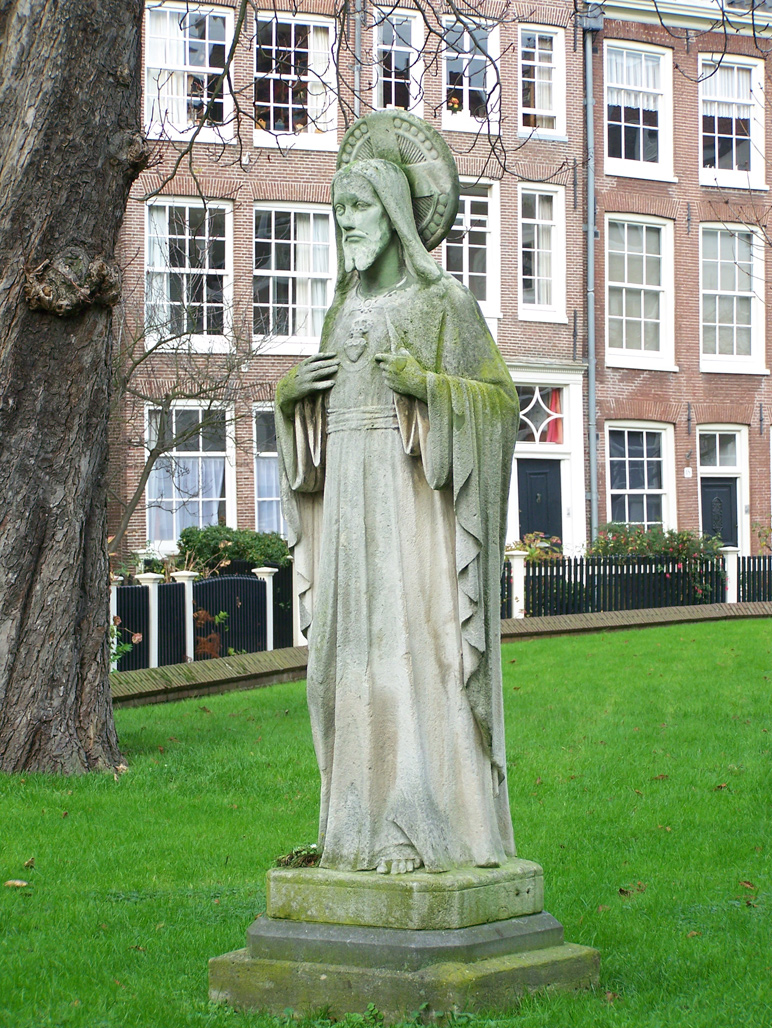 Statue of Jezus at the Begijnhof in Amsterdam. Made by Johannes Petrus Maas in 1920.